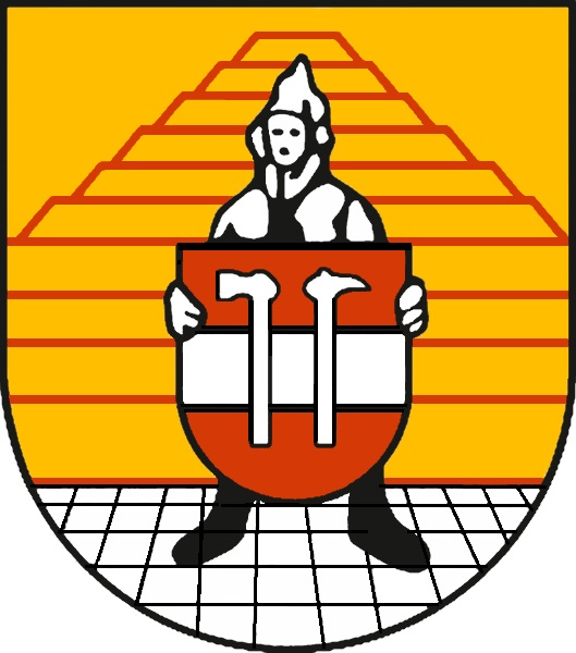 Coat of arms of Eisenerz, Styria